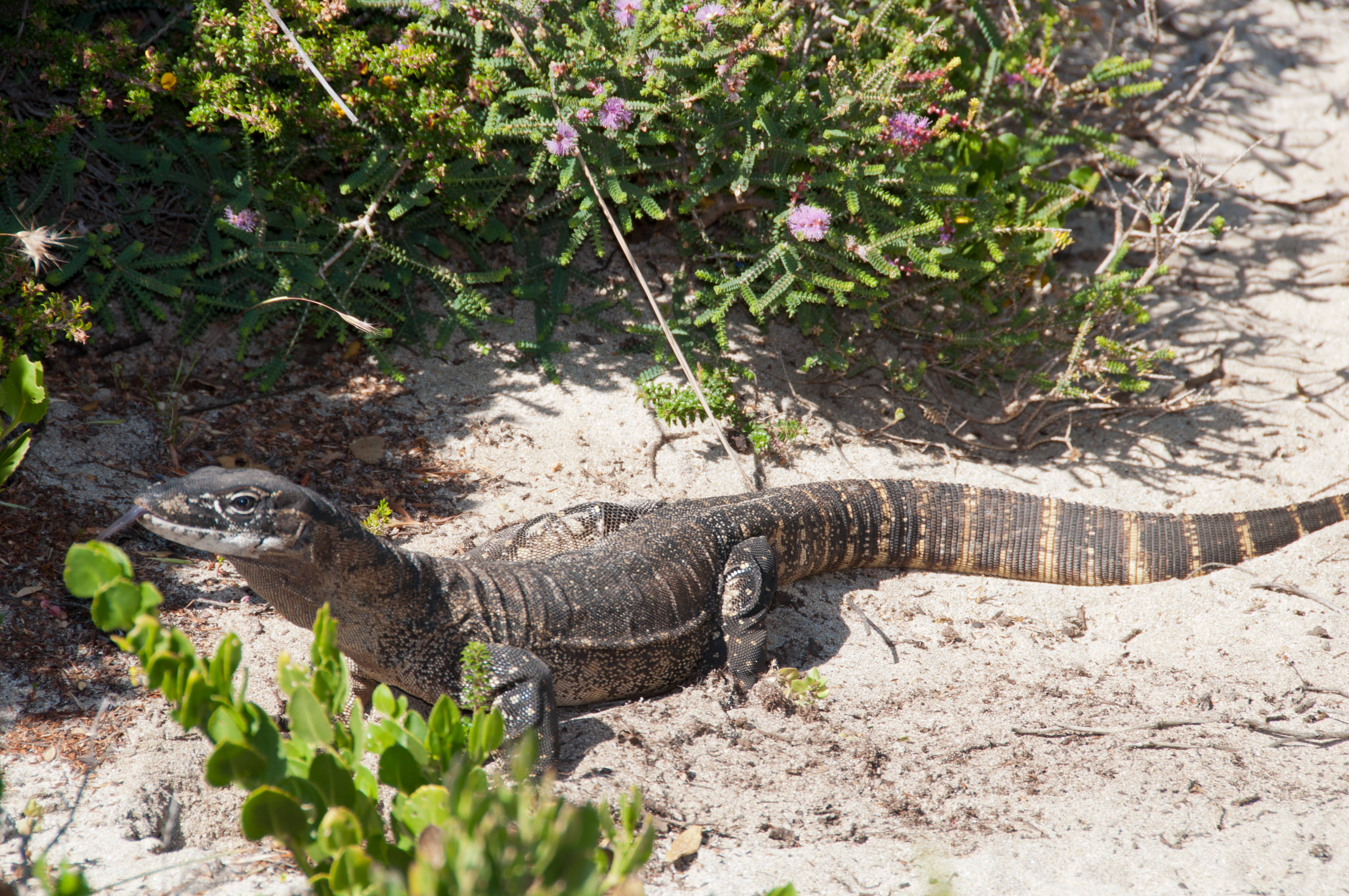 heath goanna Varanus rosenbergii